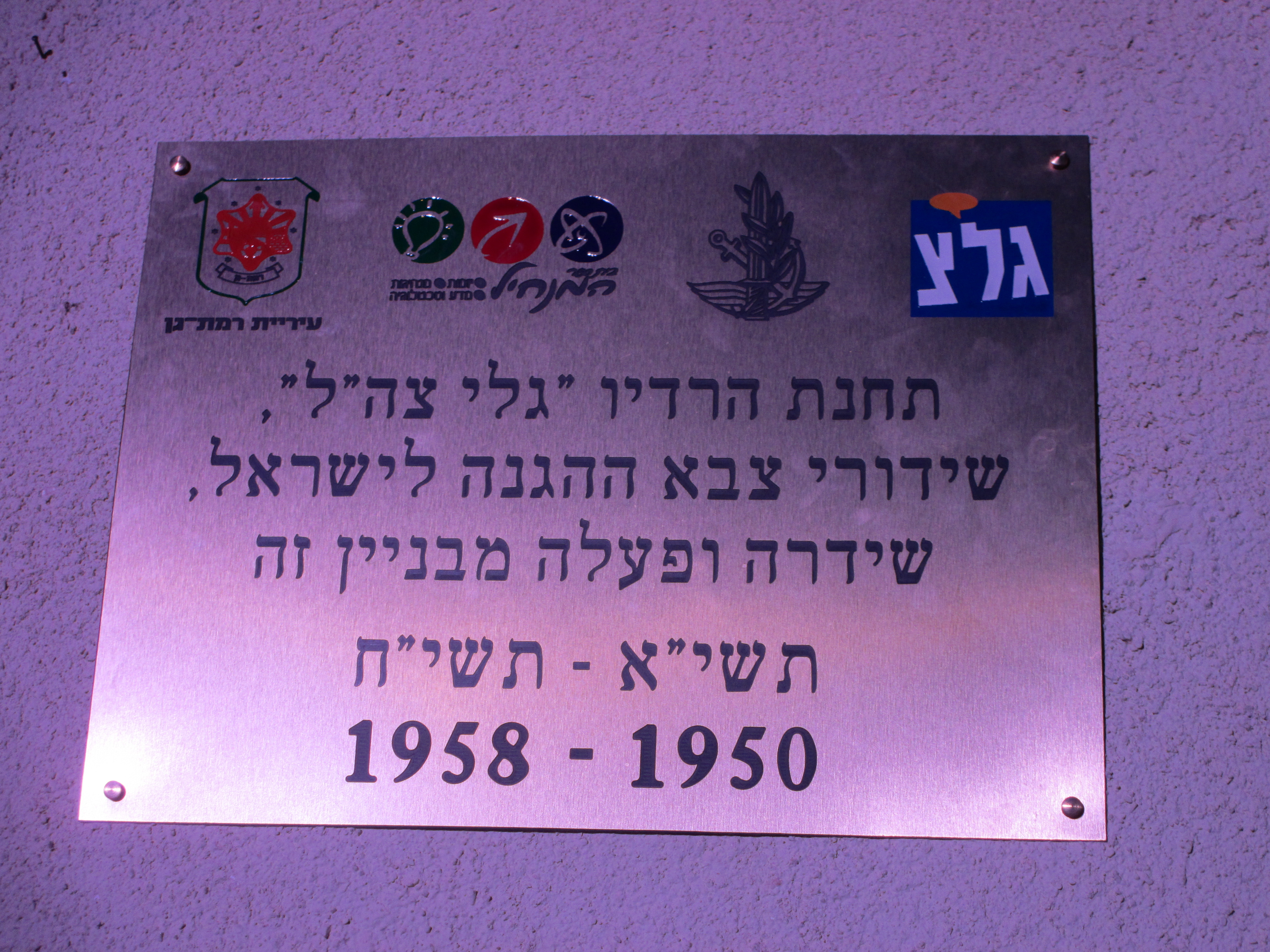 Galei Tzahal (IDF broadcasting station) memorial plaque in Ramat Gan